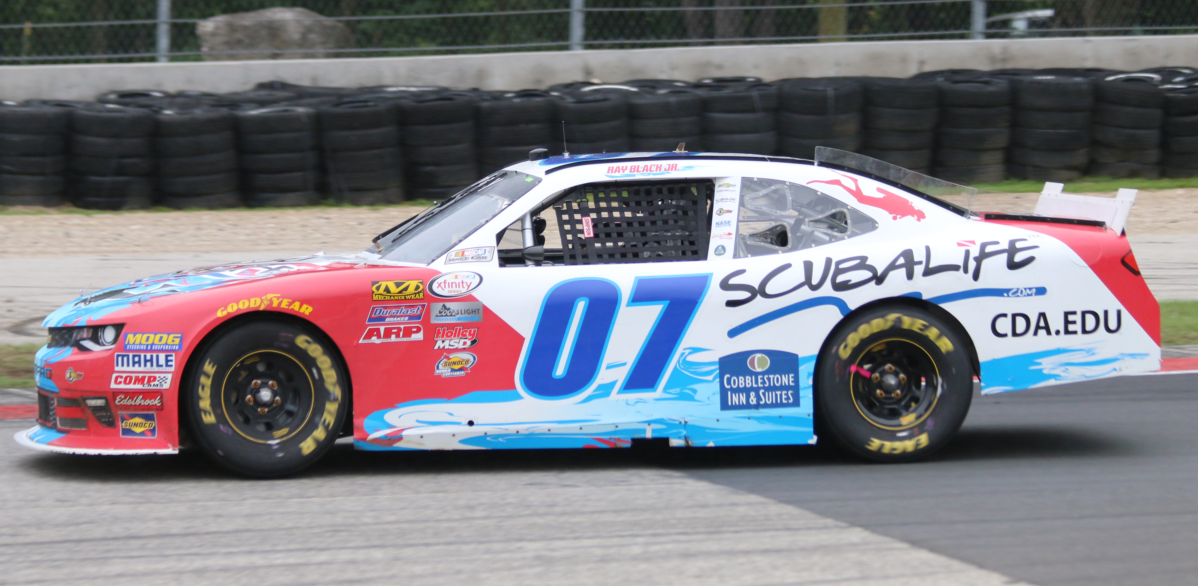 The Chevrolet Camaro of Ray Black Jr. at the NASCAR Xfinity Series Road America 180.